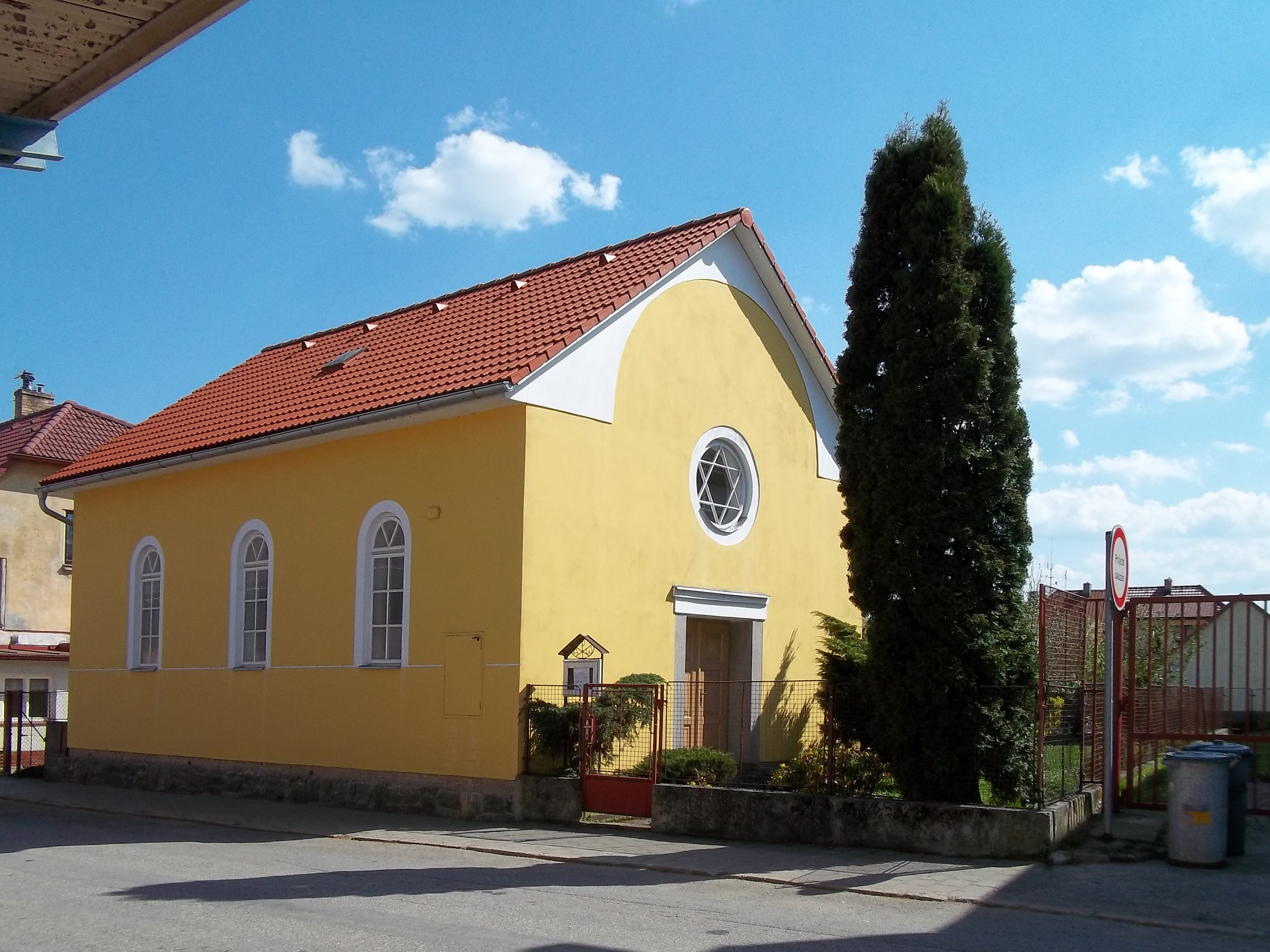 Synagogue in the town of Kamenice nad Lipou, Pelhřimov District, Czech Republic